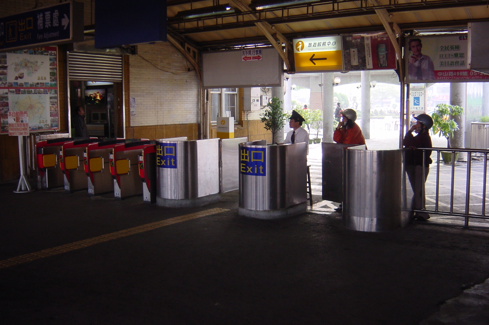 Taiwan Railway Administration Chiayi Station.